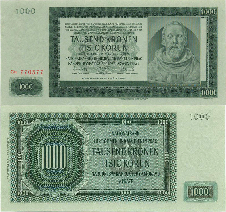 1000 Korun Note of Bohemia and Moravia